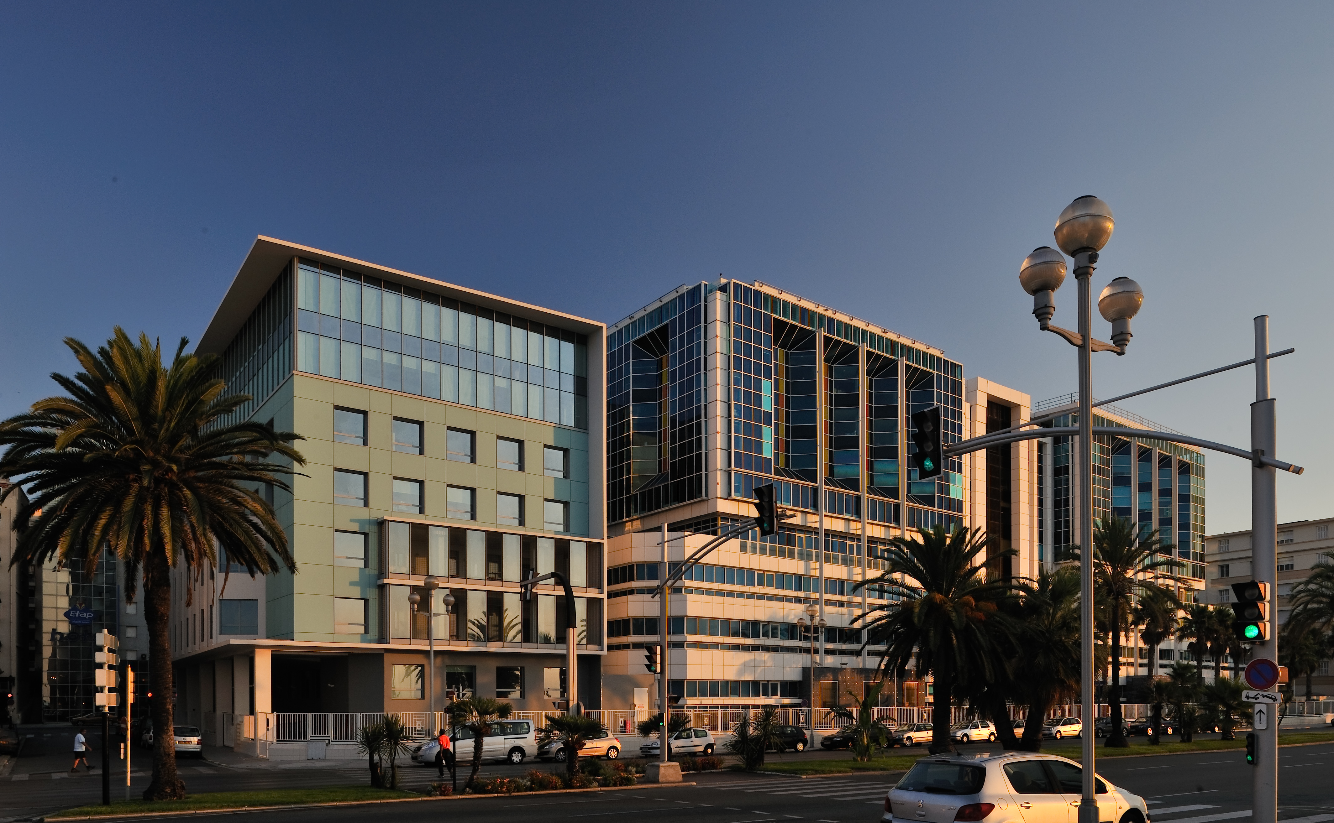 Fondation Lenval (children's hospital) on the promenade des Anglais in Nice, France.